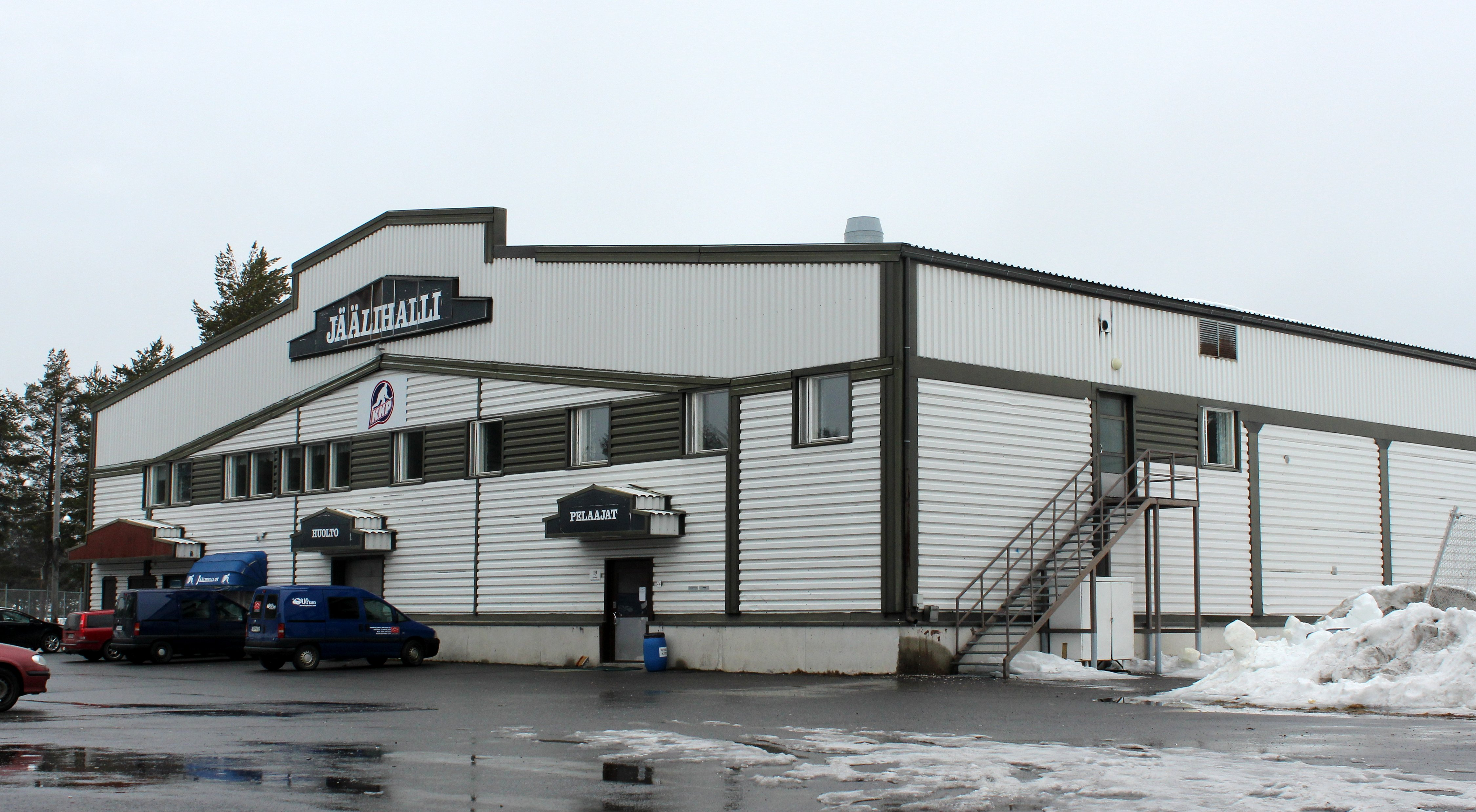 Jäälihalli is an ice hockey arena in Jäälinkylä neighbourhood in Oulu. It has been built in 1987.